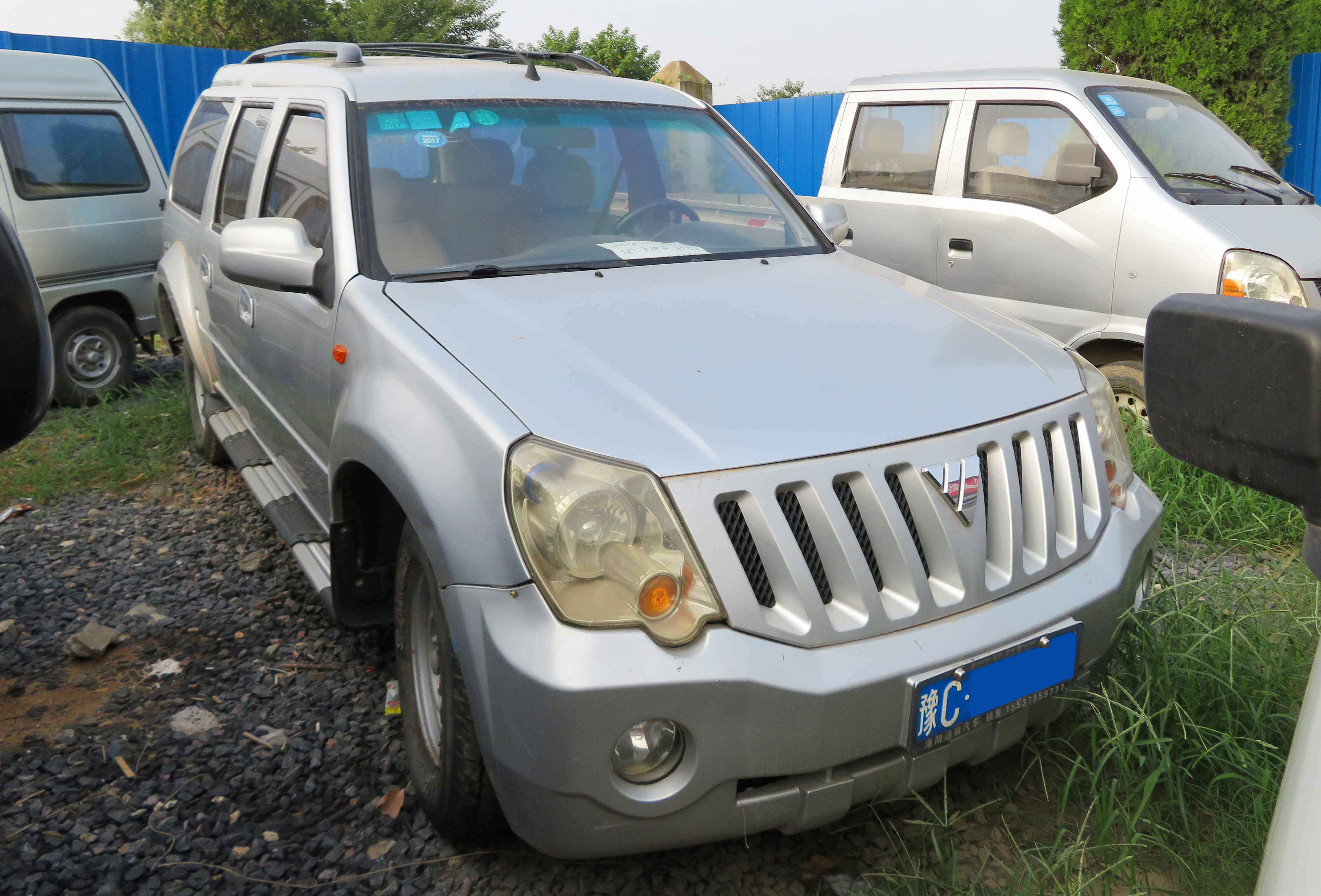 A Beiqi-Foton Saga C2-4 SUV photographed in Luoyang, Henan province, China